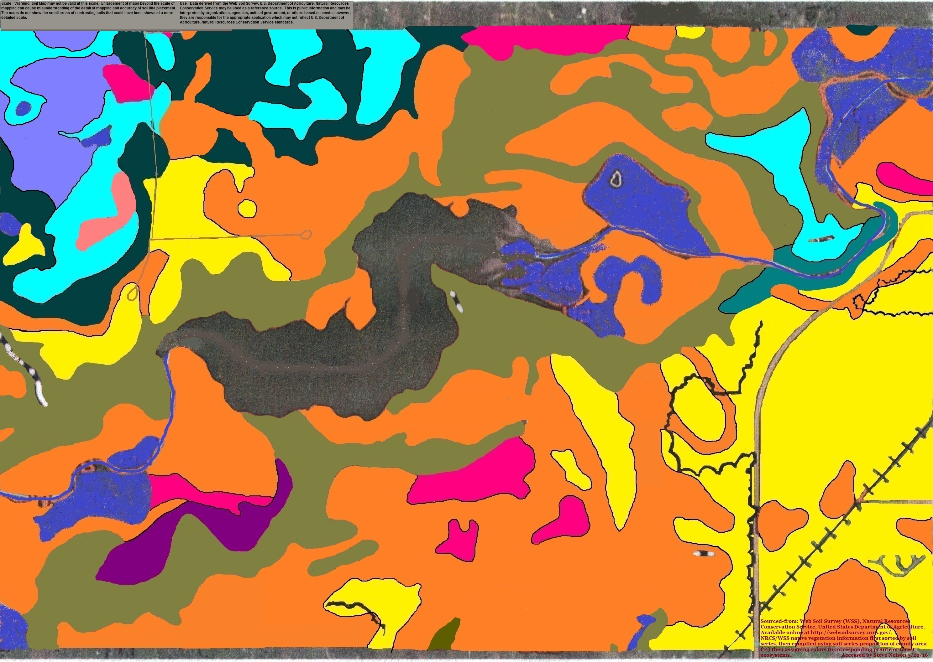 Colored map shows soils of Willow River State Park area northeast of Hudson, in St. Croix County, Wisconsin. Savanna and prairie soils are dominant, with pine-hardwood entisol soils next most common near lake and stream areas.